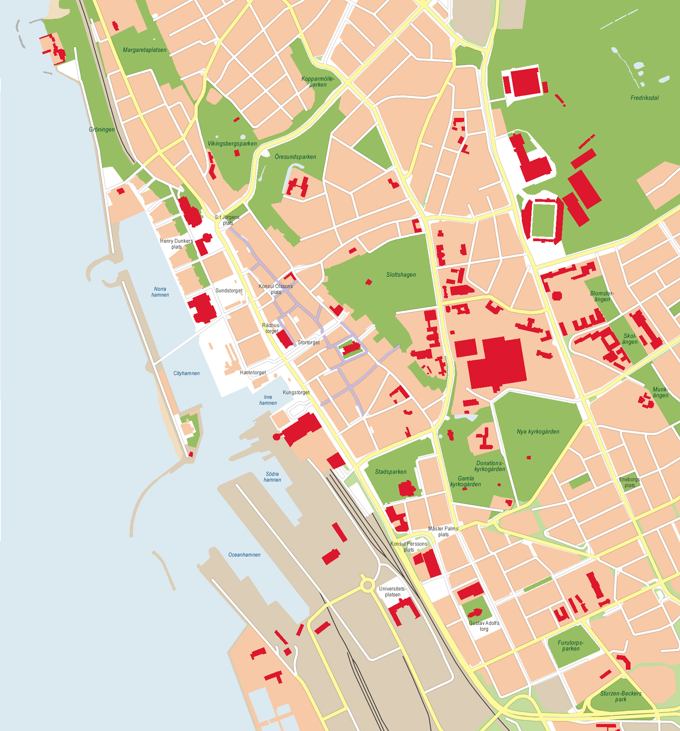 Map of Helsingborg City centre